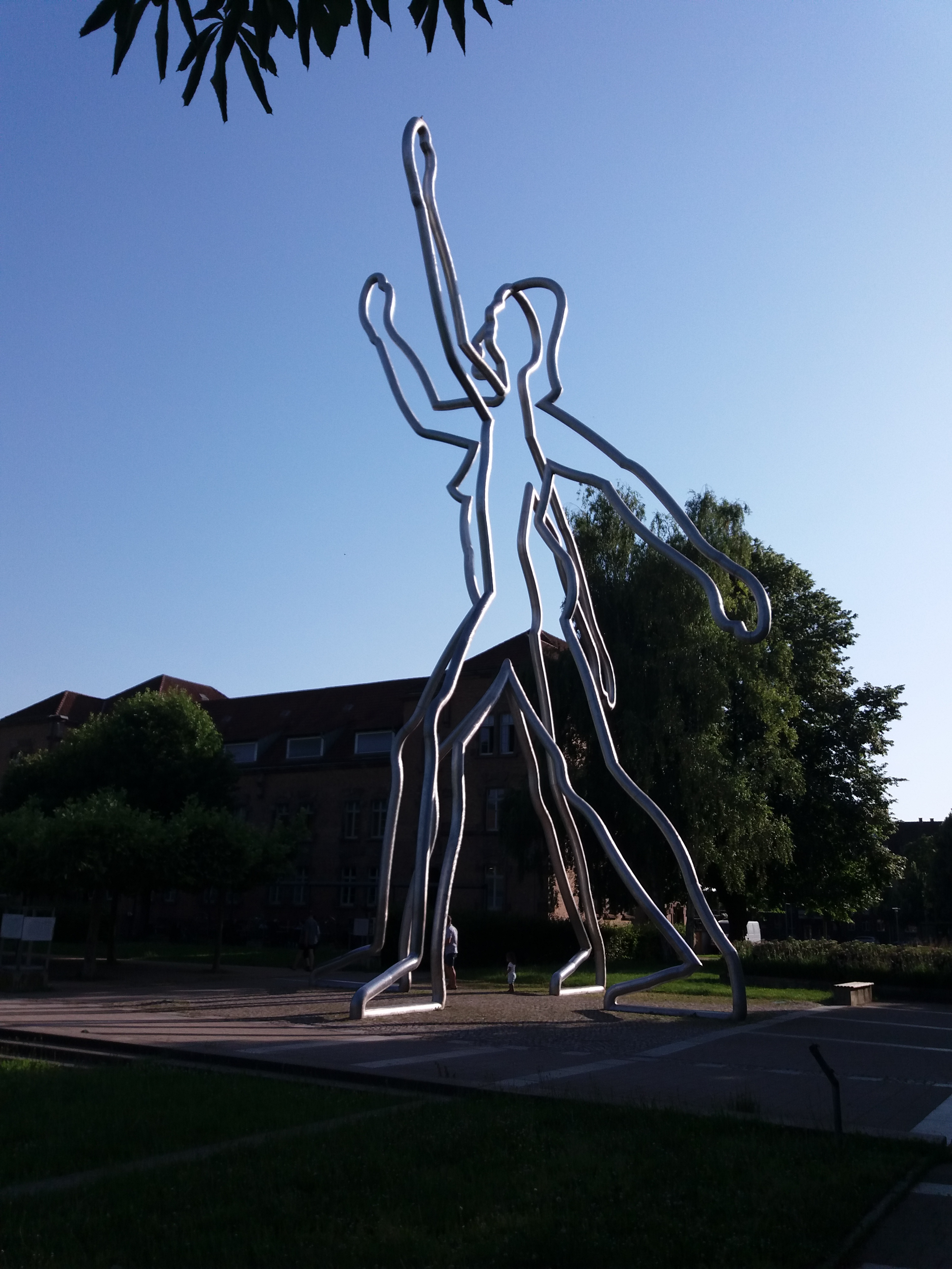 Sculpture 'Freedom (Male/Female)' on the premises of Offenburg's cultural forum by US artist Jonathan Borofsky, symbolizing the struggle for democracy during the revolutionary movement between 1847 and 1849, when Offenburg played a significant role as a location for one of the most important conventions where, for the first time in German history, citizens voiced their demands for democratic principles that are nowadays enshrined in the present German Constitution. The sculpture was donated to the citizens of Offenburg by honorary citizen Aenne Burda, publisher of the reknown fashion magazine Burda Moden.